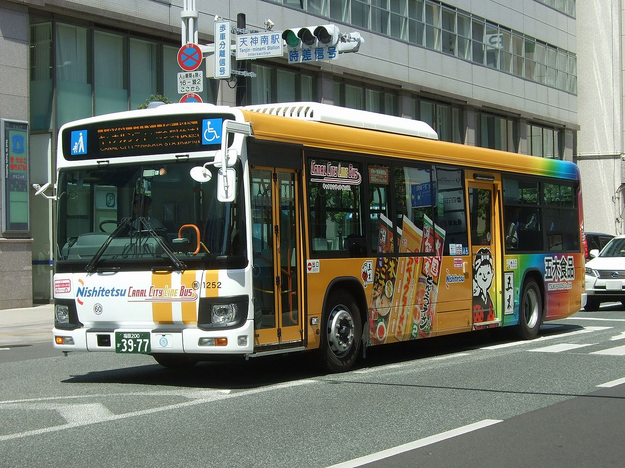 Nishitetsu Bus "Canal City Line Bus", in Fukuoka City. Company:Nishi-Nippon Railroad Use:transit bus Car license:FOF200 KA 3977 Belongs to:Hakata Depot Code:1252 Chassis manufacturer:Isuzu Motors Type:Erga Coachbuilder:J-BUS Location:In Chuo Ward, Fukuoka City, Fukuoka, Japan.